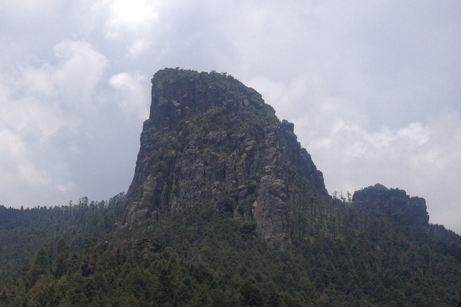 Peñón del Rosario is a rock in Chignahuapan (Puebla, Mexico). Altitude: 3440 m a.s.l.